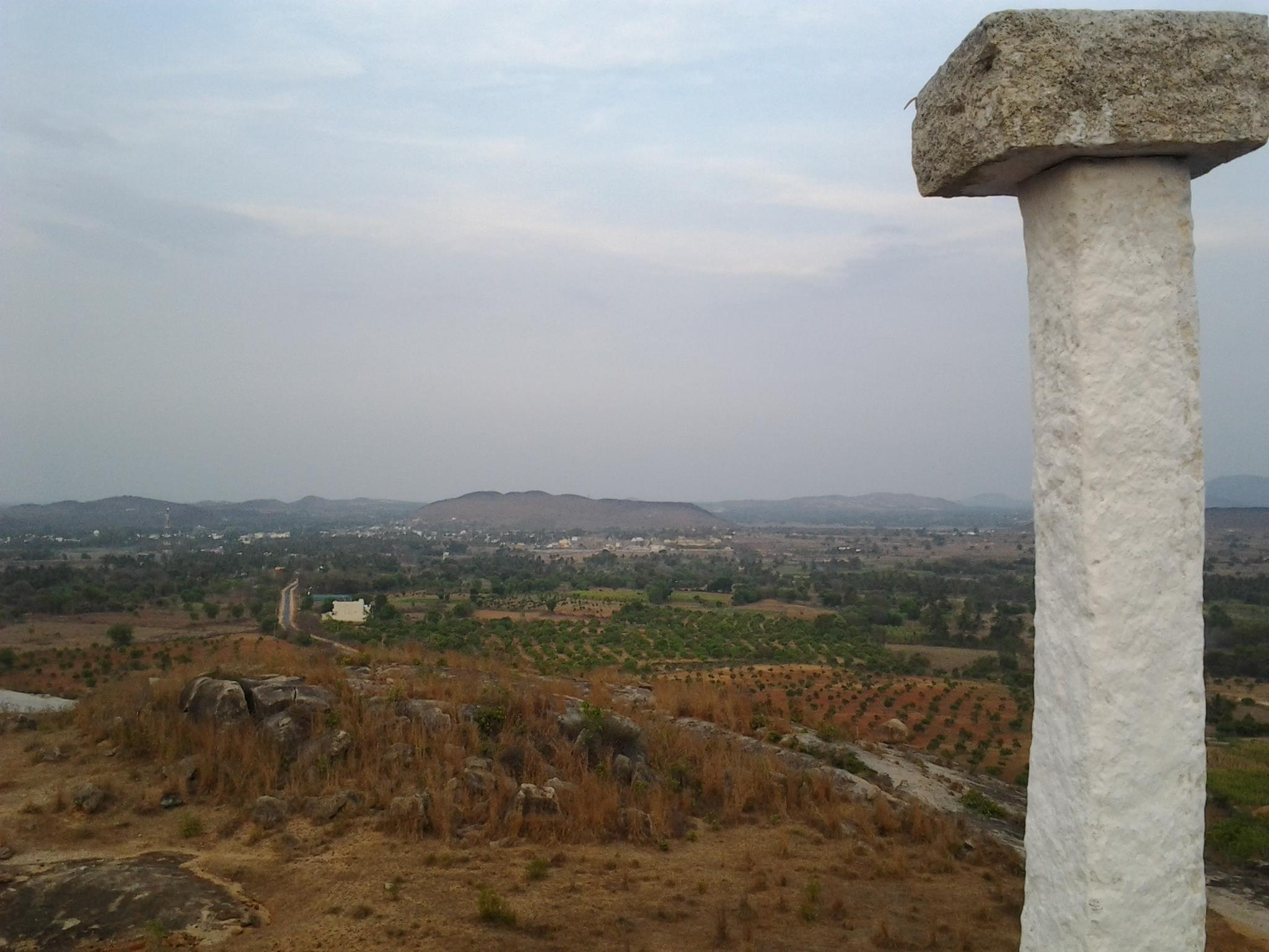 The Ariel view of Sodam from a local mountain called Sithamma Gutta